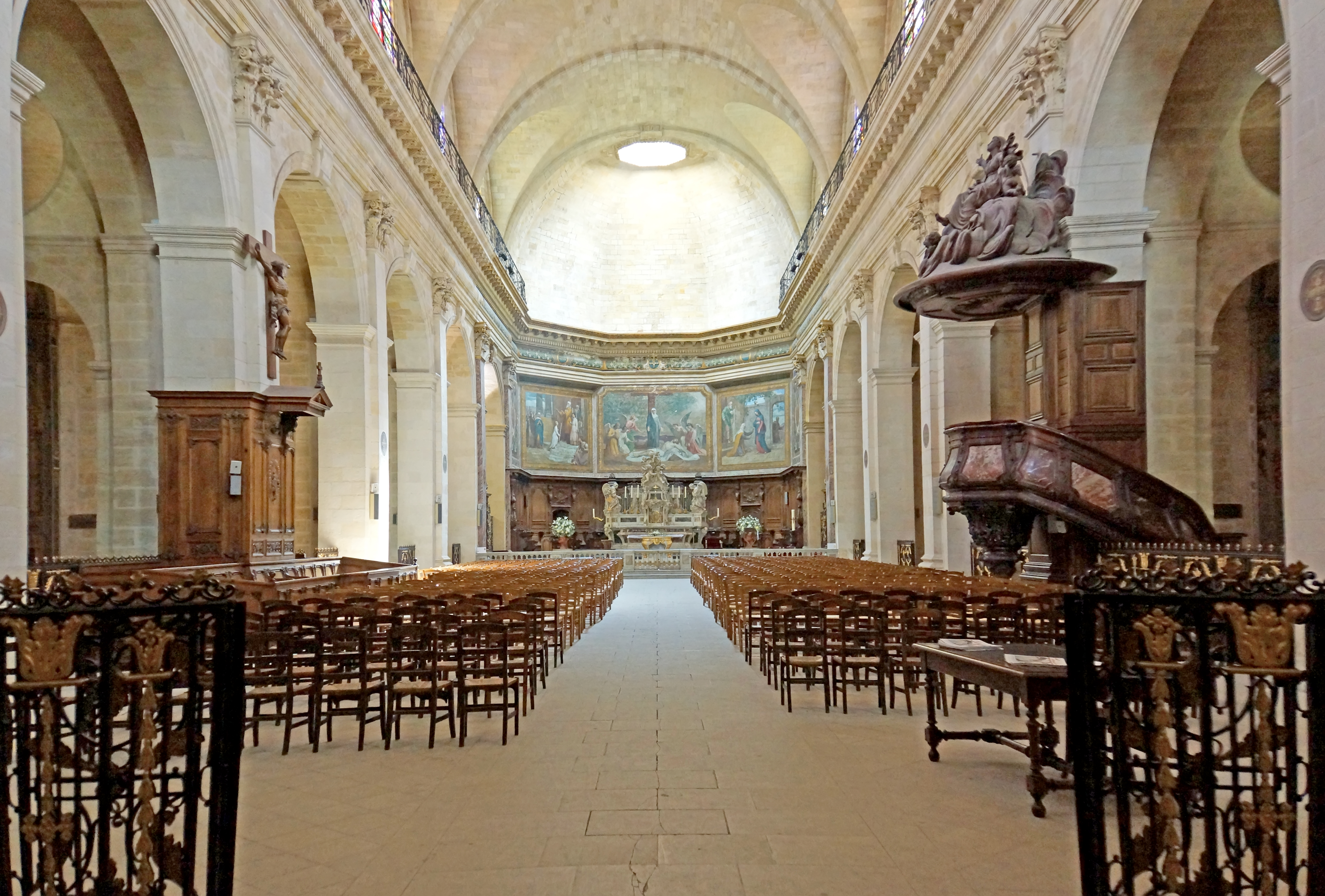 PLEASE, NO invitations or self promotions, THEY WILL BE DELETED. My photos are FREE to use, just give me credit and it would be nice if you let me know, thanks. This former Dominican chapel was built at the end of the 17th century.